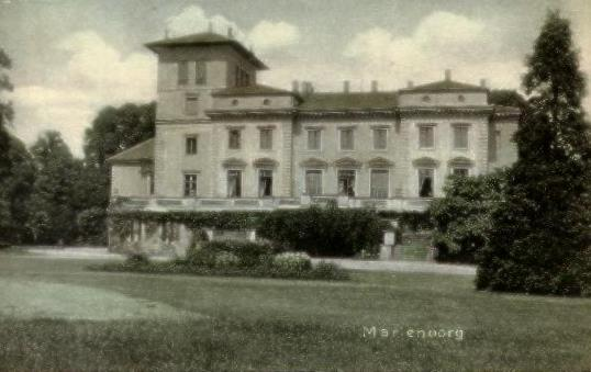 Postcard of Marienborg, a Danish manor house in Møn. Demolished 1984.